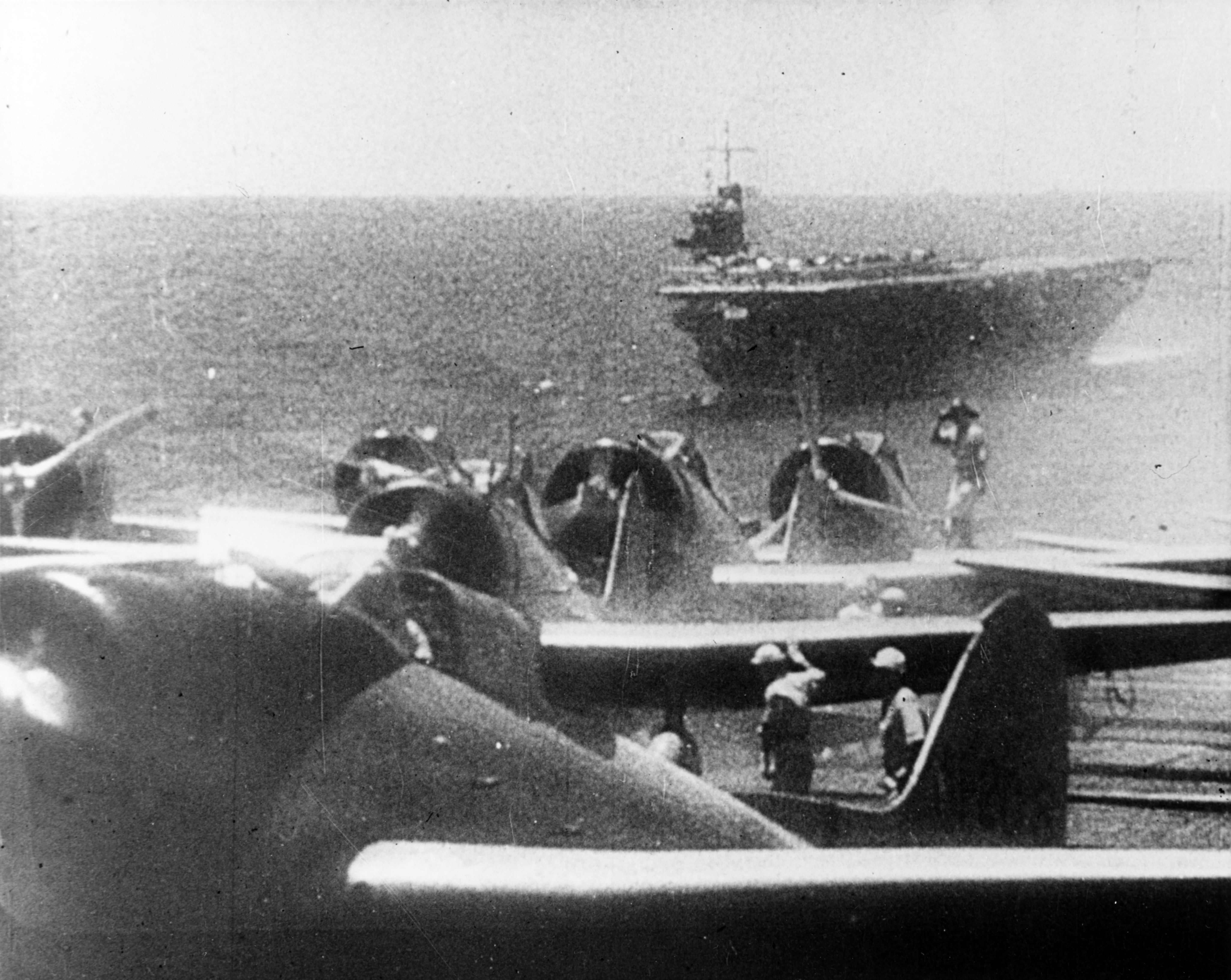 Japanese Navy Aichi D3A1 Type 99 carrier bombers (allied codename Val) prepare to take off from an aircraft carrier during the morning of 7 December 1941. Ship in the background is the carrier Soryu.